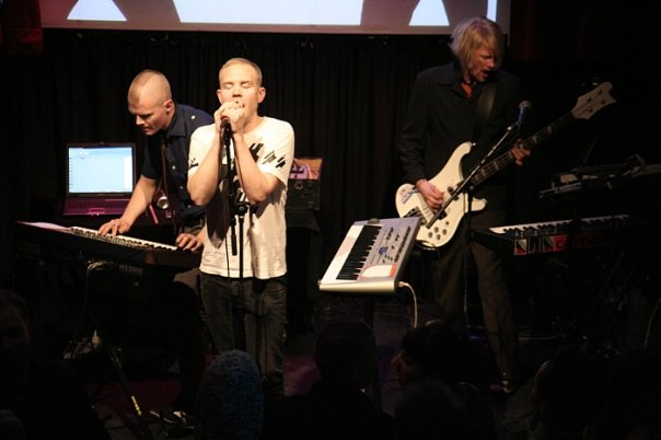 swedish electronic band auto-auto